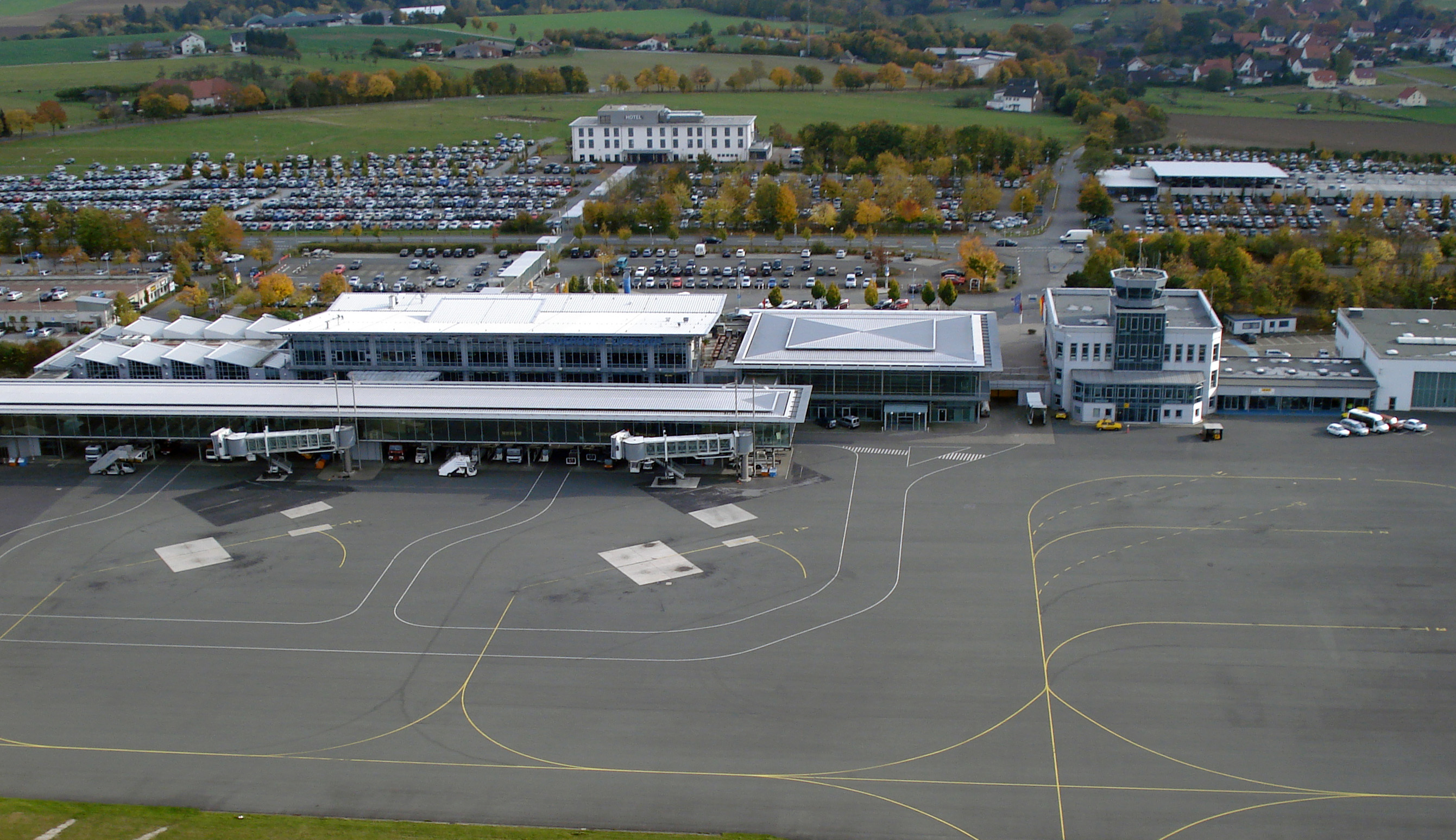 Terminal EDLP in Büren